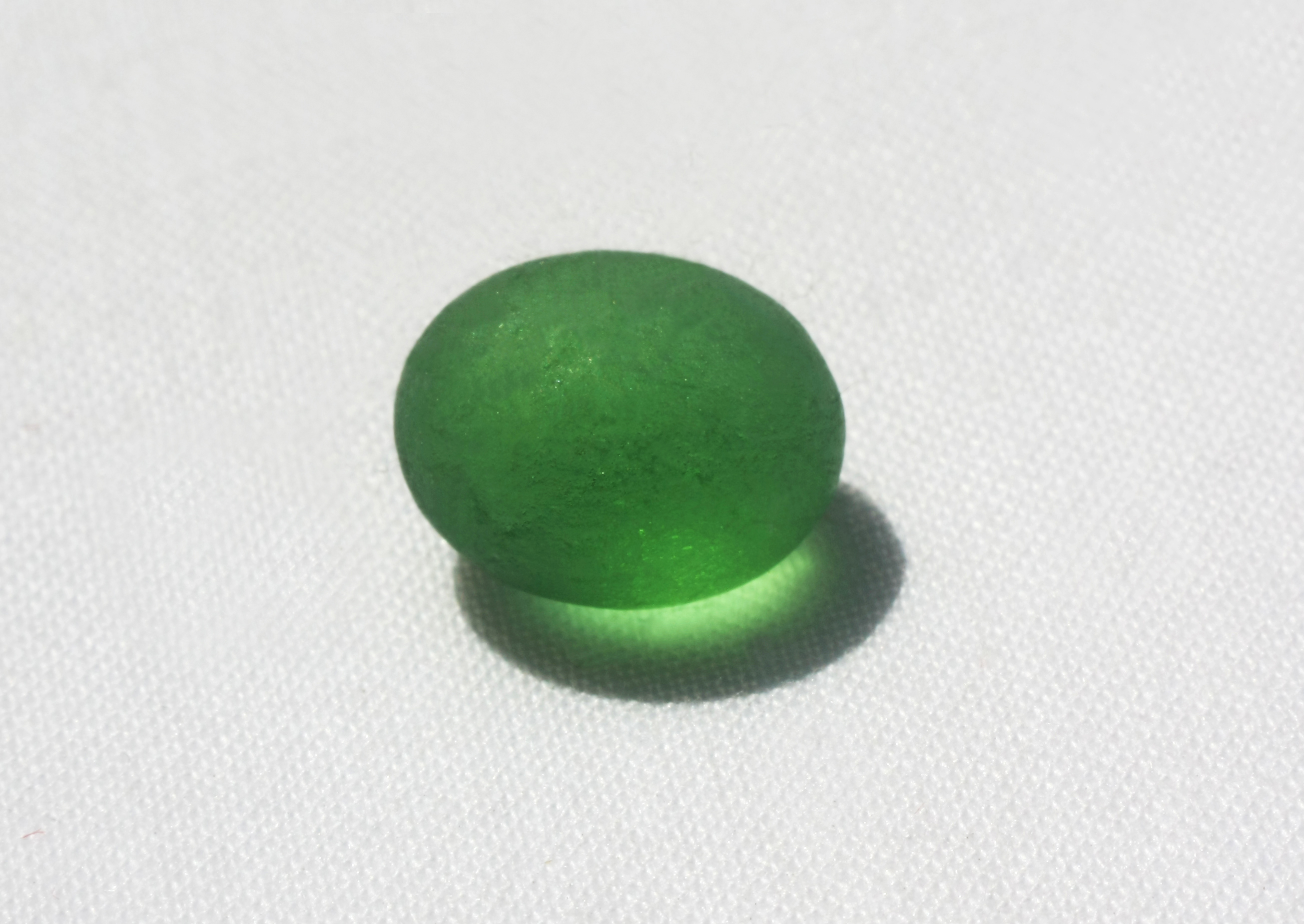 Cobra-stone is also known as snake gem, cobra pearl or Nagamani, not the snake stone. The term "cobra stone" is often used for a type of fluorite called chlorophane. Its connection to snakes is purely mythological; it is a mineral.